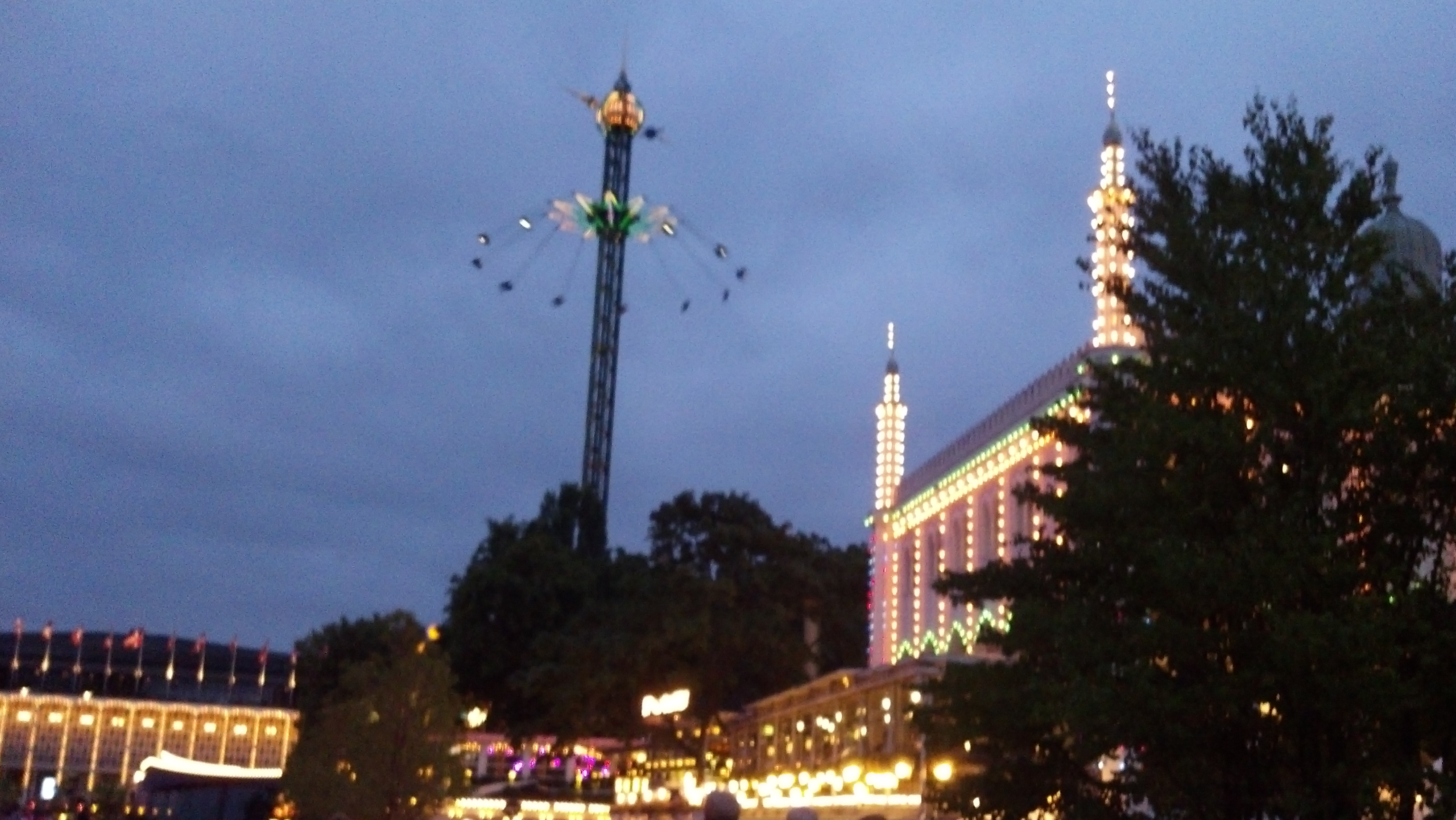 The golden tower at Tivoli gardens